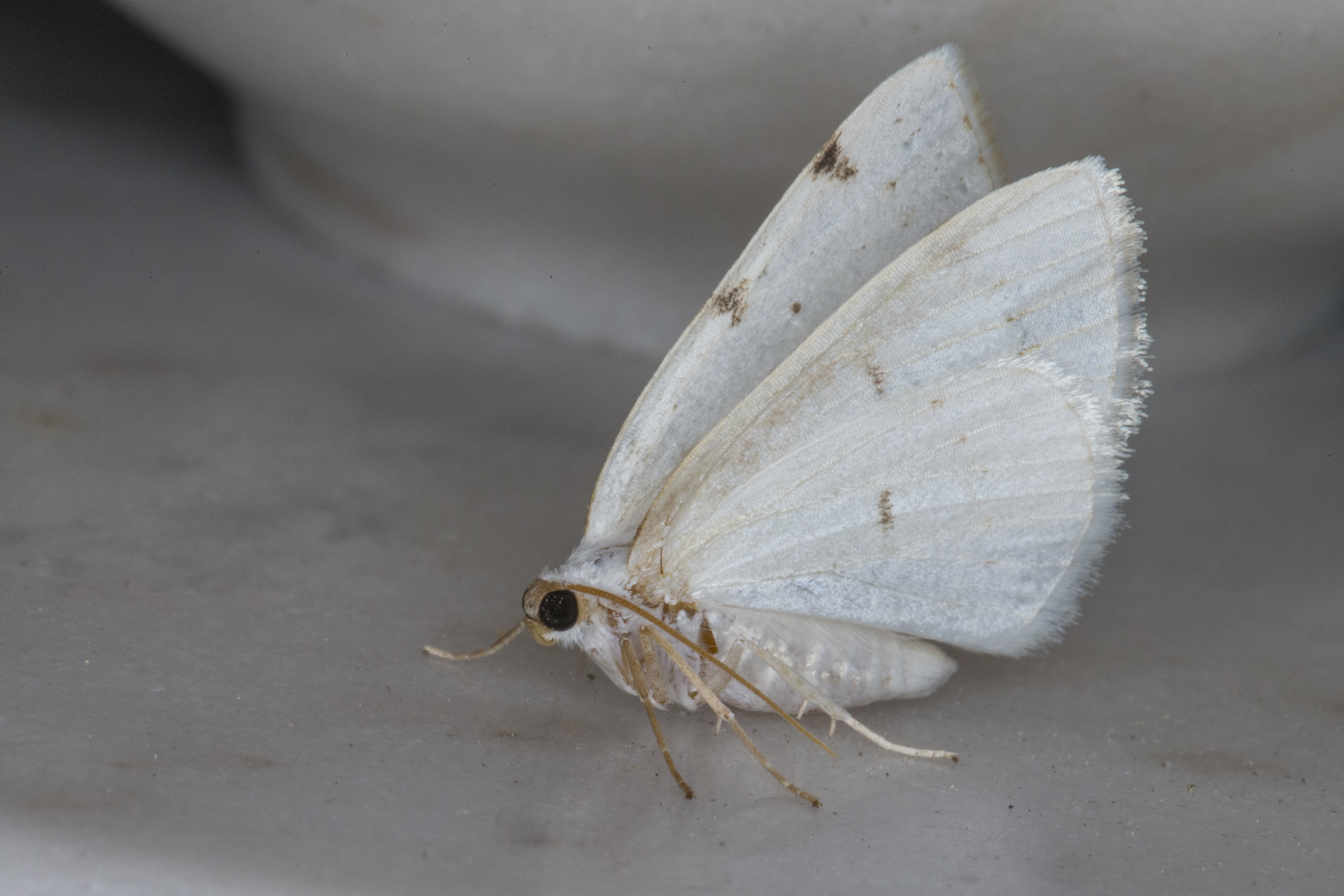 White-pinion Spotted Lomographa bimaculata, Lodz (Poland)